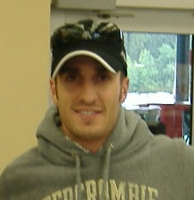 Tomas Scheckter at a Joliet, IL gas station immediately after the Peak Antifreeze Indy 300 at Chicagoland Speedway in 2006.